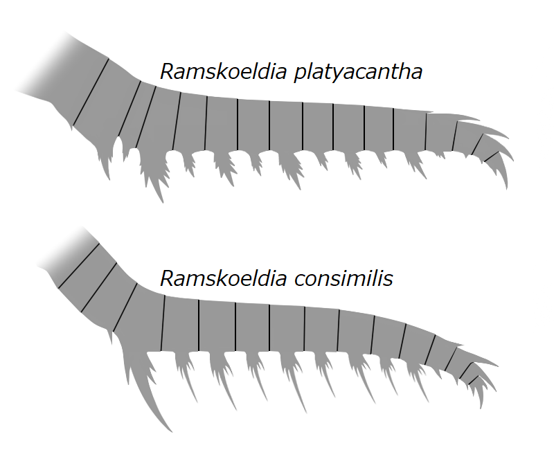 Frontal appendages of the radiodont genus Ramskoeldia. Size not to scale.